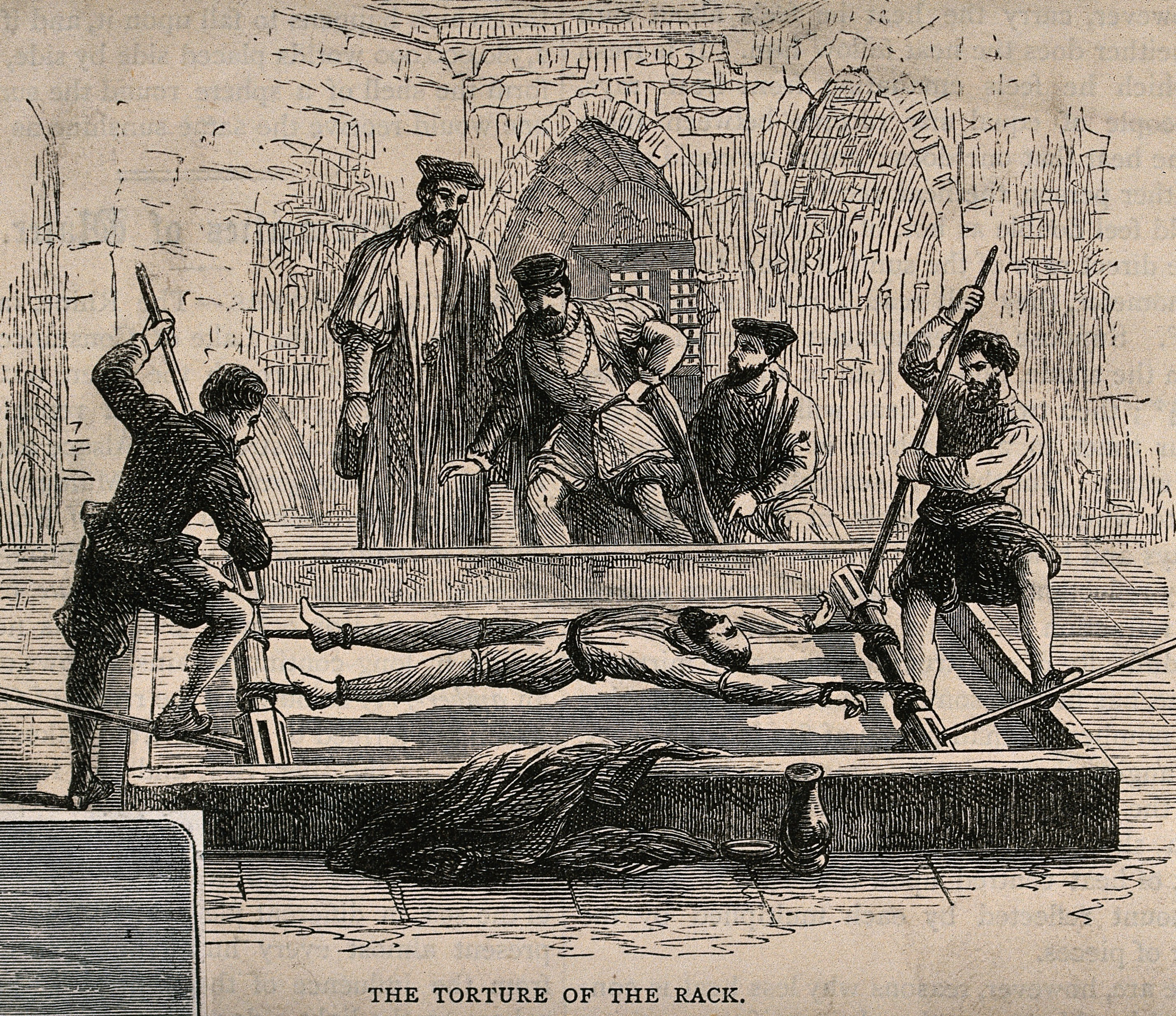 A man tortured on the rack. Wood engraving. Iconographic Collections